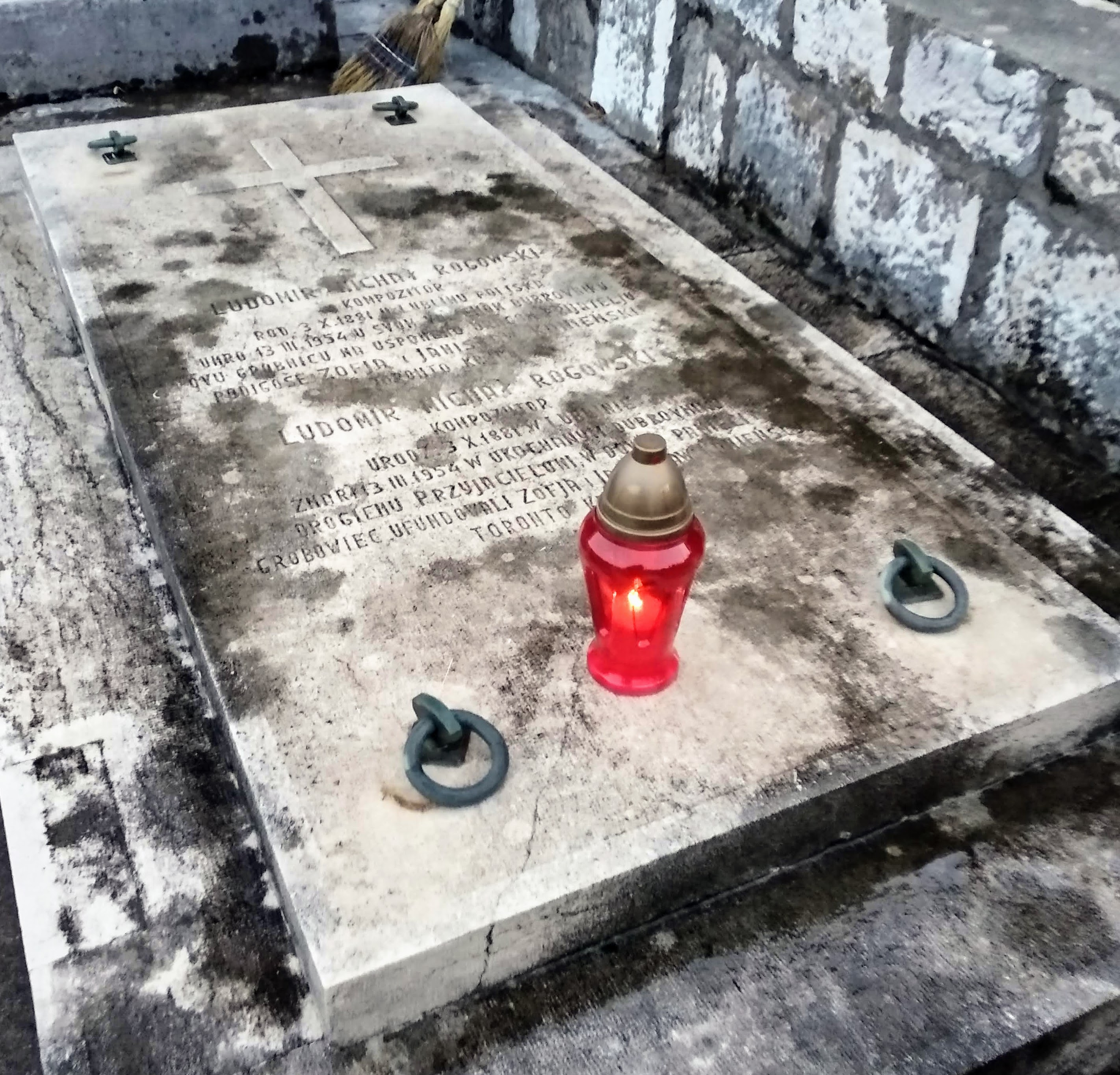 The grave of Ludomir Rogowski in Dubrovnik